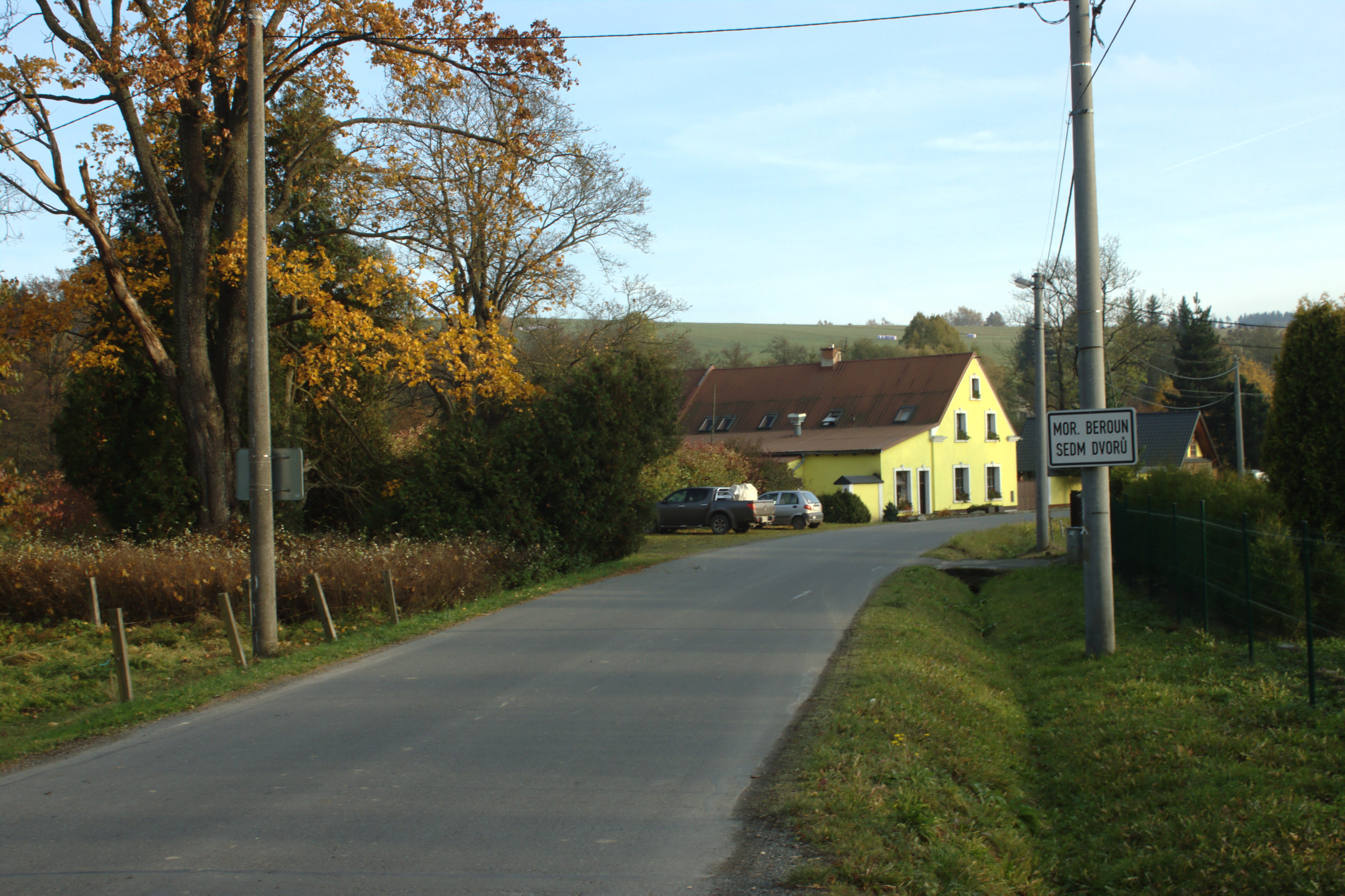 Northern limit of the village of Sedm Dvorů, CZ